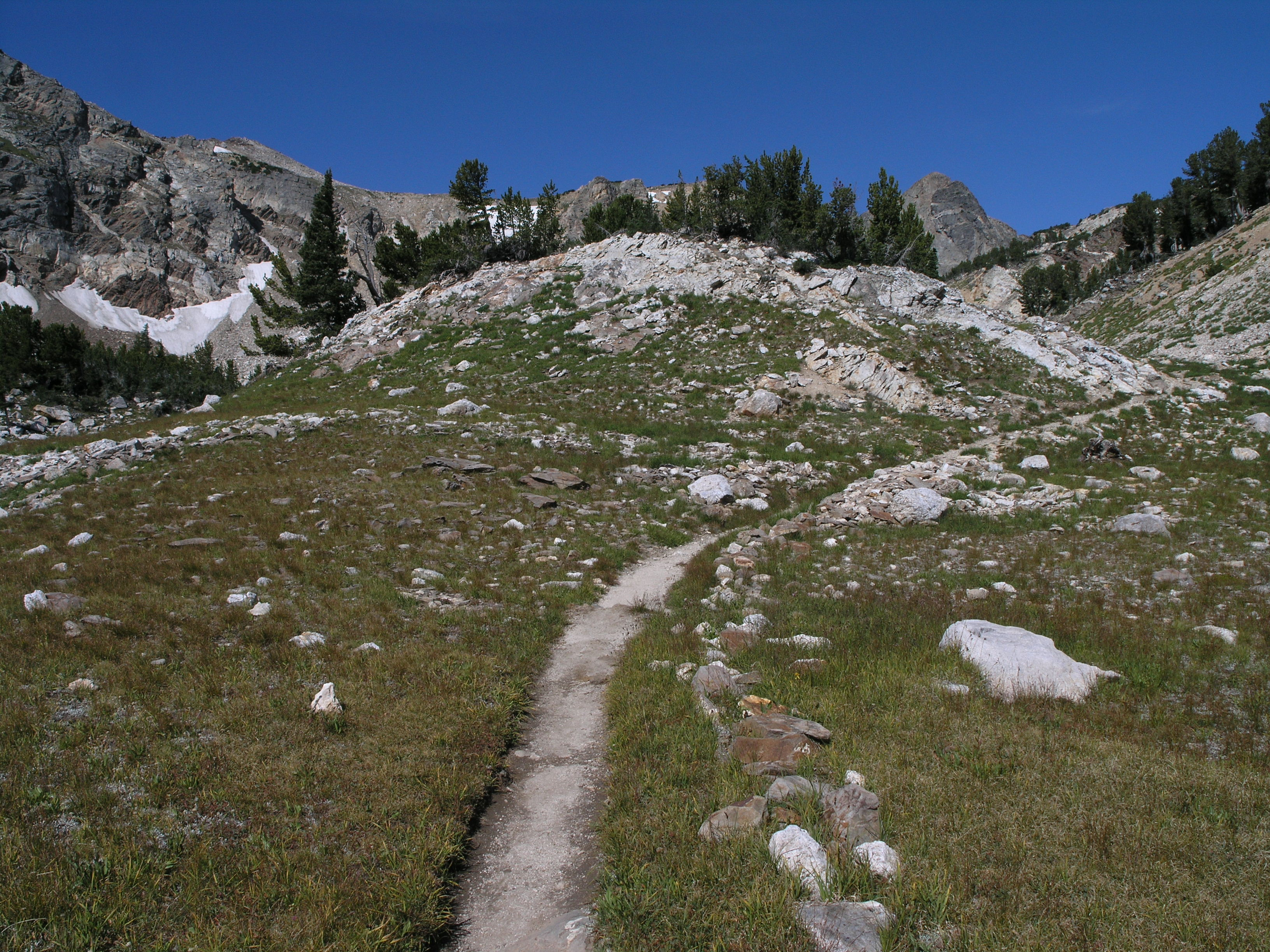 Paintbrish Divide Trail, Grand Teton National Park, Wyoming, USA